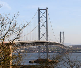 The Forth Road Bridge over the Firth of Forth in the east of Scotland and 14 km (9 miles) west of central Edinburgh. It is called the "Forth Road Bridge" to distinguish it from the Forth Rail Bridge